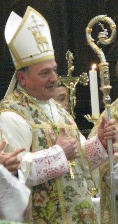 Il vescovo di Concordia-Pordenone Giuseppe Pellegrini durante una celebrazione.